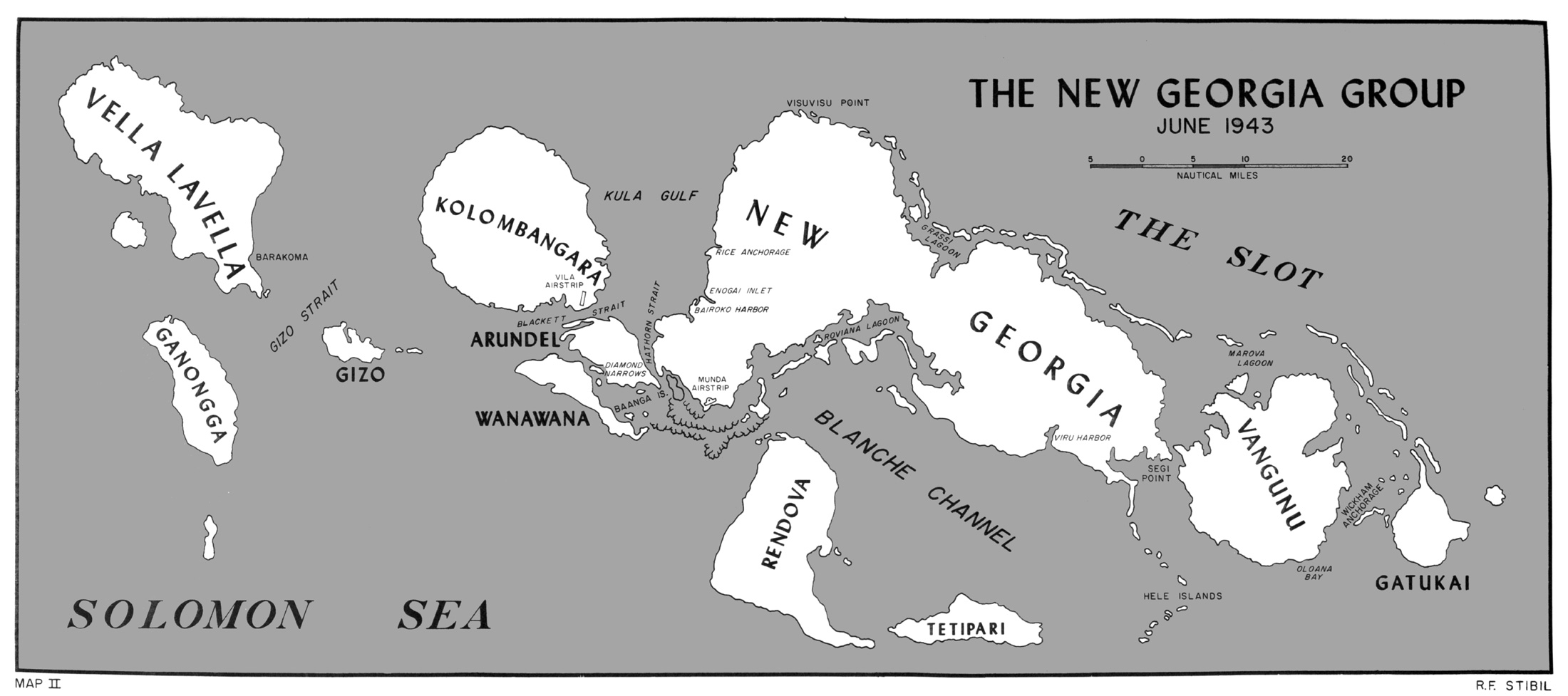 Map of the New Georgia group of islands, central Solomon Islands, June, 1943.